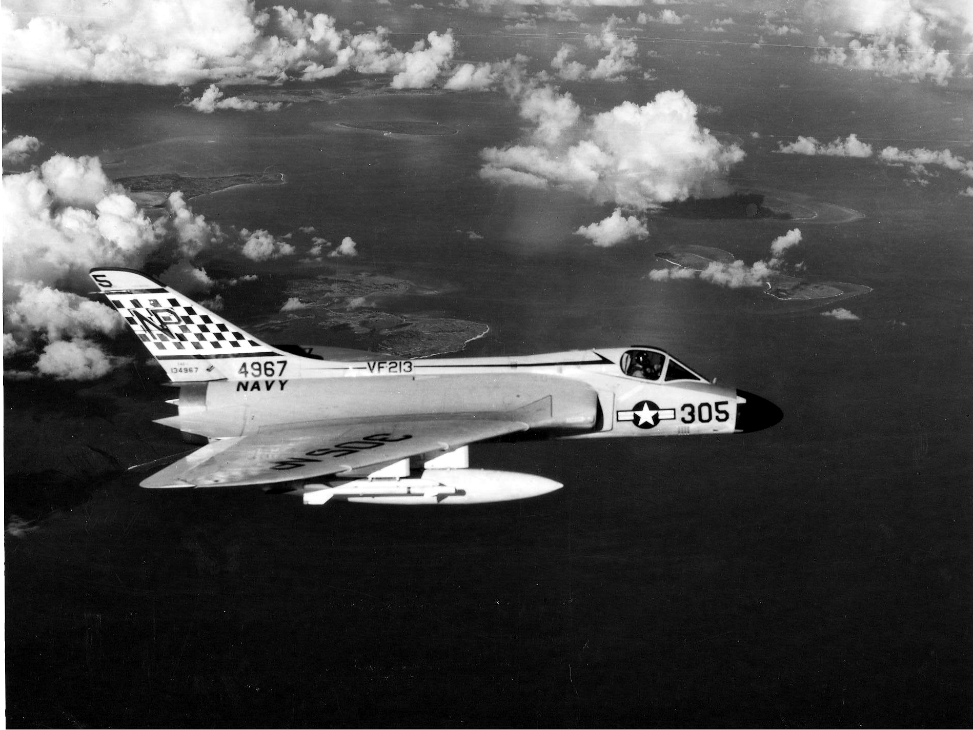 A U.S. Navy Douglas F4D-1 Skyray (BuNo 134967) from Fighter Squadron VF-213 "Black Lions" in flight. VF-213 was assigned to Carrier Air Group 21 (CVG-21) aboard the aircraft carrier USS Lexington (CVA-16) for a deployment to the Western Pacific from 14 July to 19 December 1958. The Skyray is armed with AIM-9B Sidewinder missiles and flies a patrol during the 1958 Taiwan Strait Crisis.